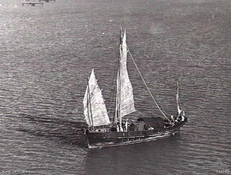 Royal Australian Navy vessel HMAS River Snake in 1945. The ship was operated by the Services Reconnaissance Department